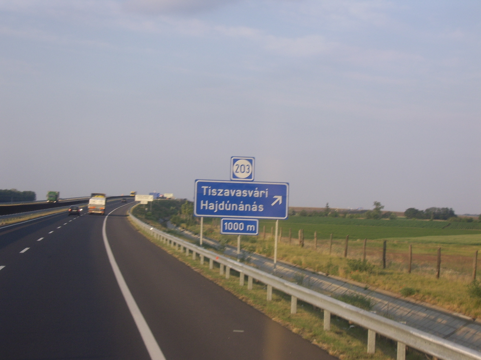 The M3 motorway near Hajdúnánás; exit 203